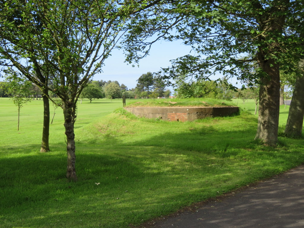 Pillbox alongside North Cliff Avenue, Scalby